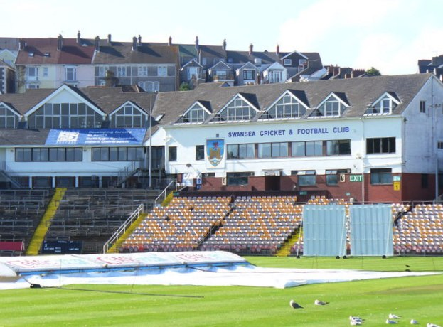 Swansea Cricket and Football Club, near to Sketty, Swansea/Abertawe, Great Britain.